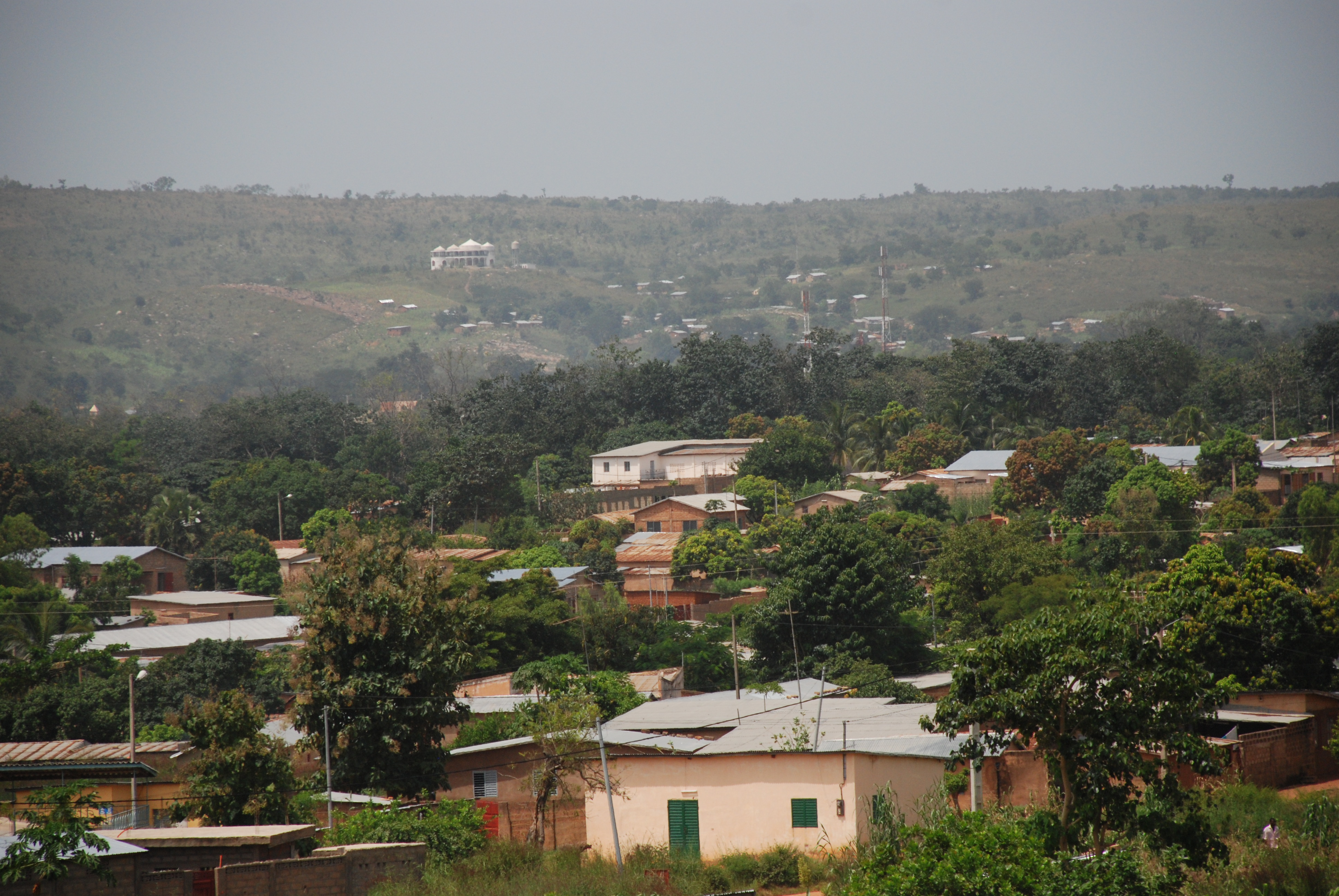 Natitingou - city in northern Benin, close to the Atakora mountains - West Africa, Benin, city